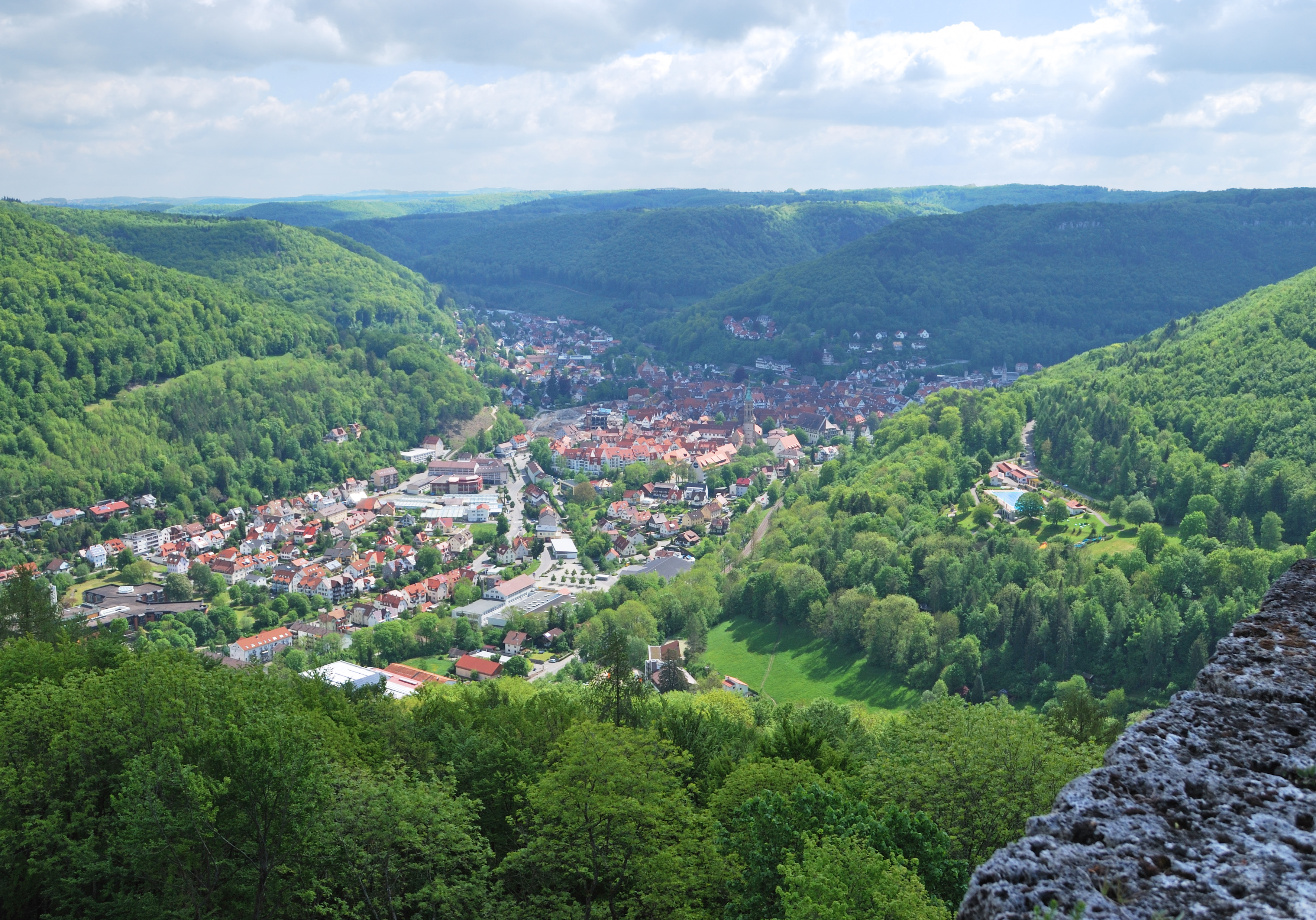 View of Bad Urach from the Castle Hohenurach in Swabian Jura in the German Federal State Baden-Württemberg.